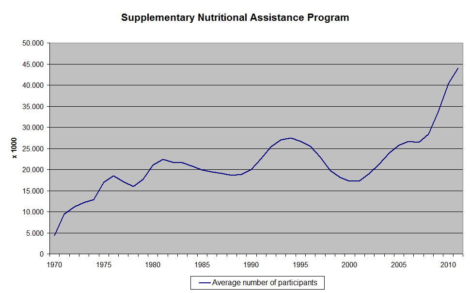 Development of number of participants in Supplementary Nutritional Assistance Program.